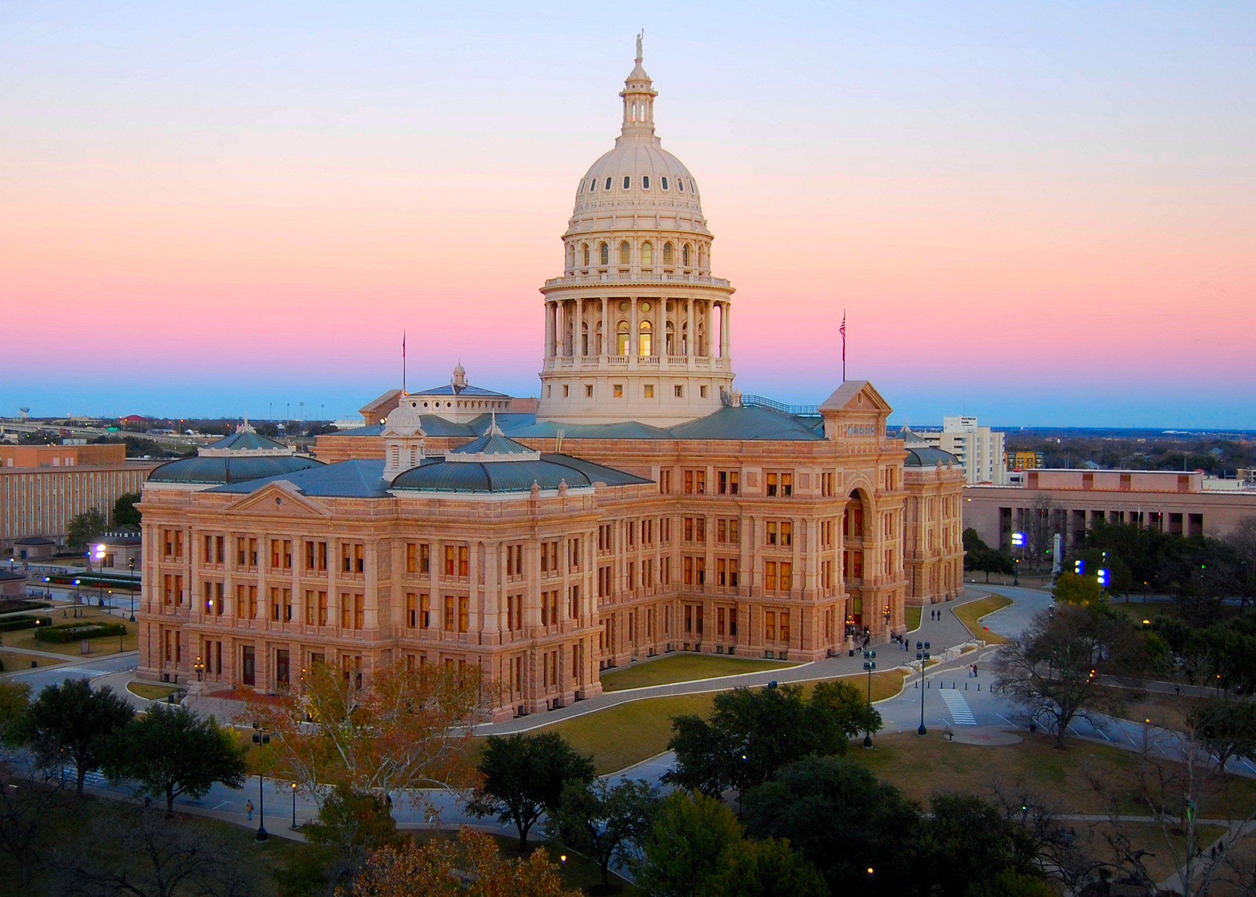 Texas State Capitol